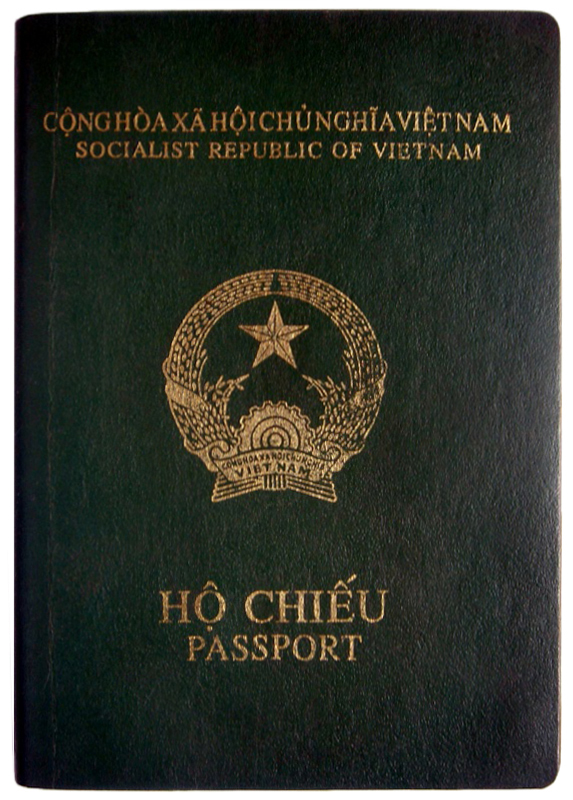 Vietnam passport 1998